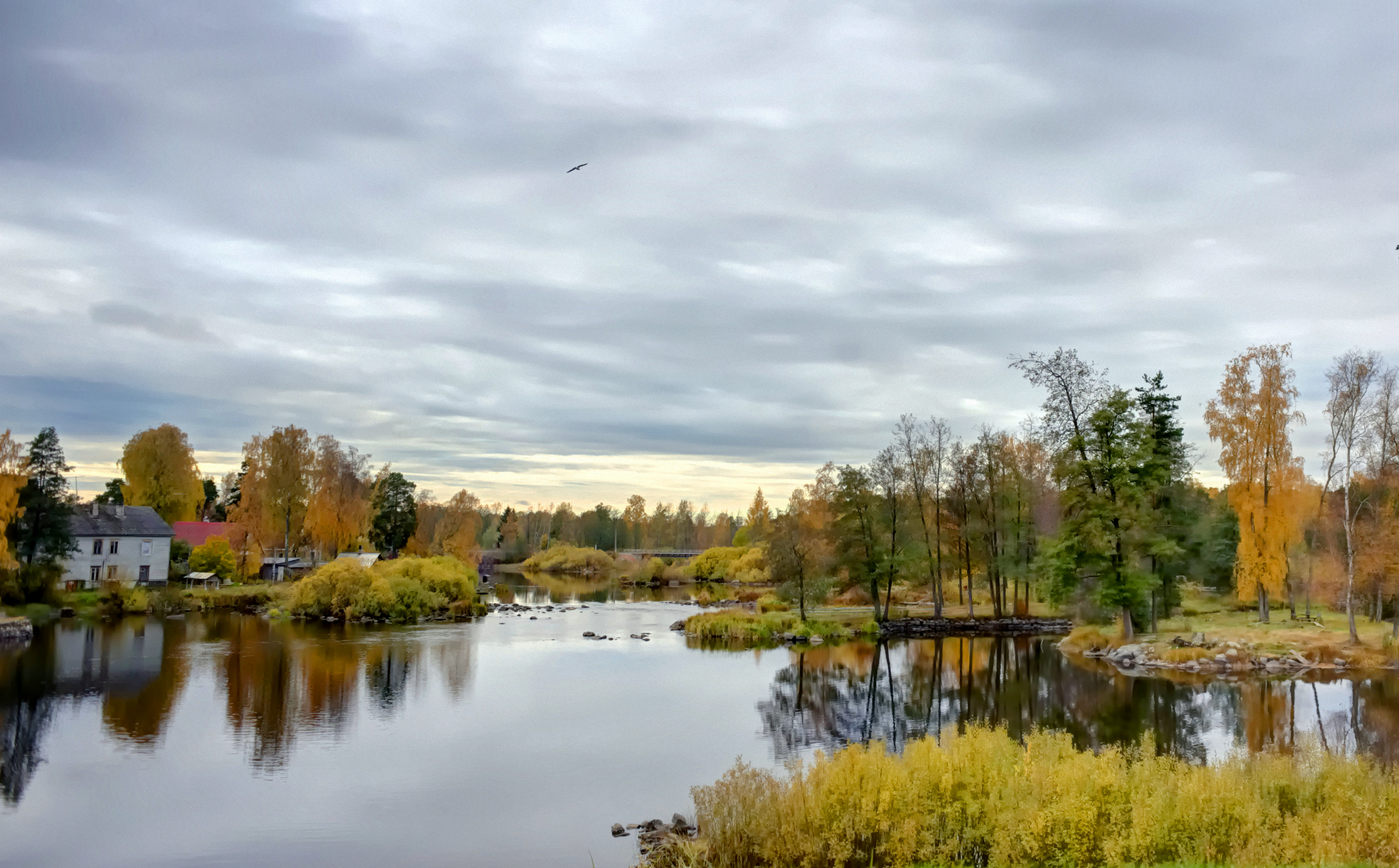 River Vuoksi in Käkisalmi